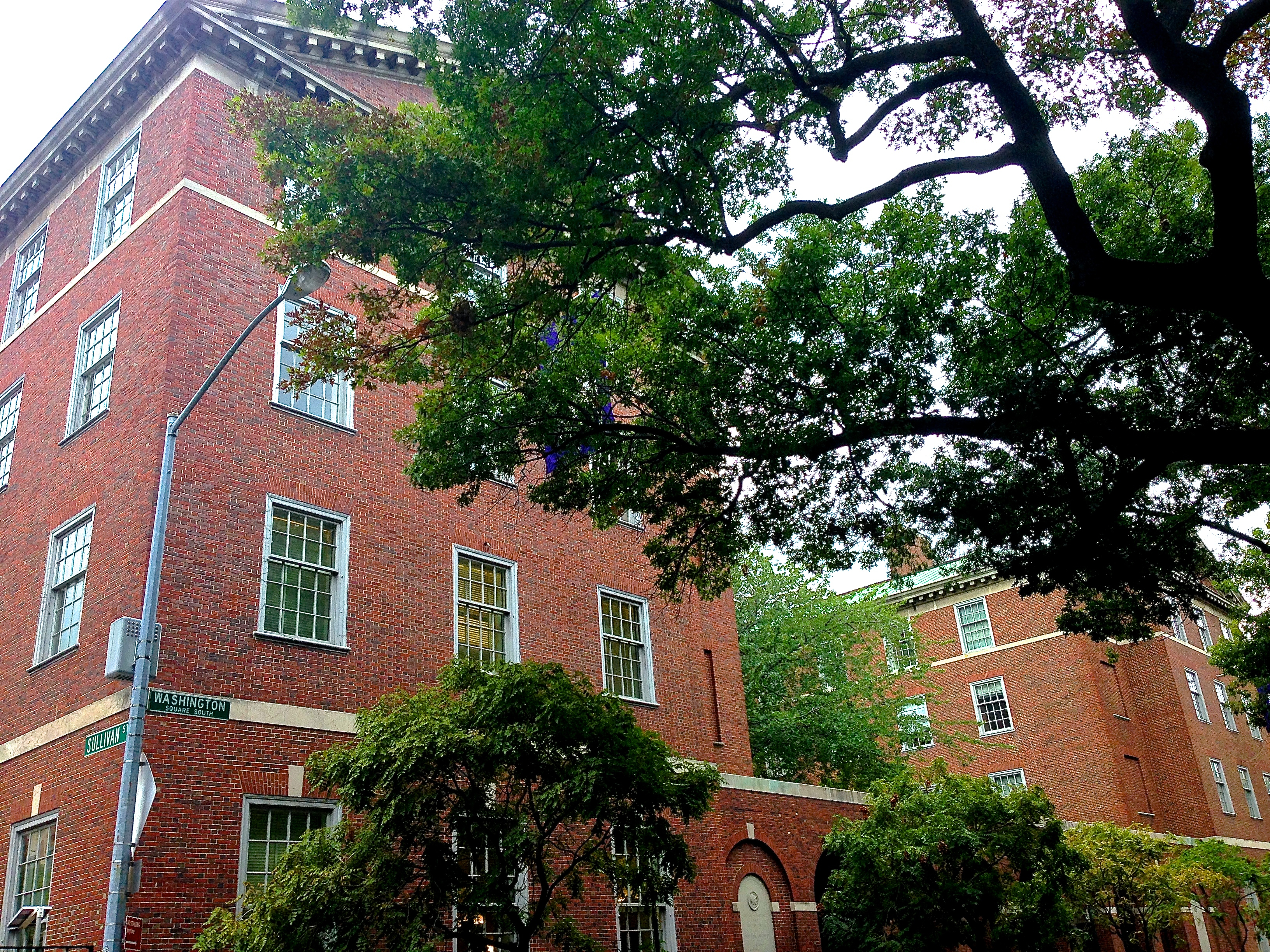 NYU Law Building